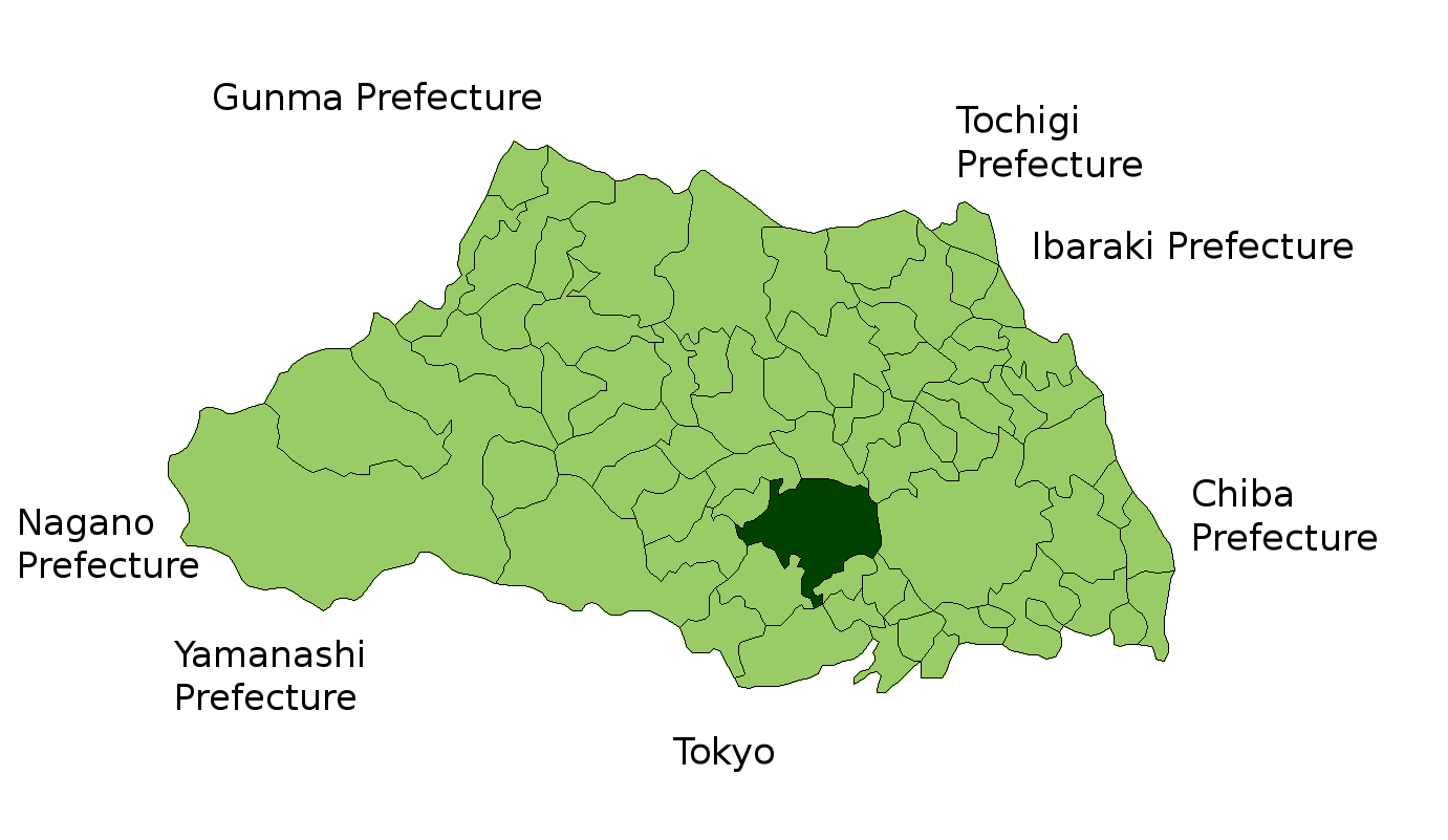 Location Map of Kawagoe in Saitama Prefecture, Japan